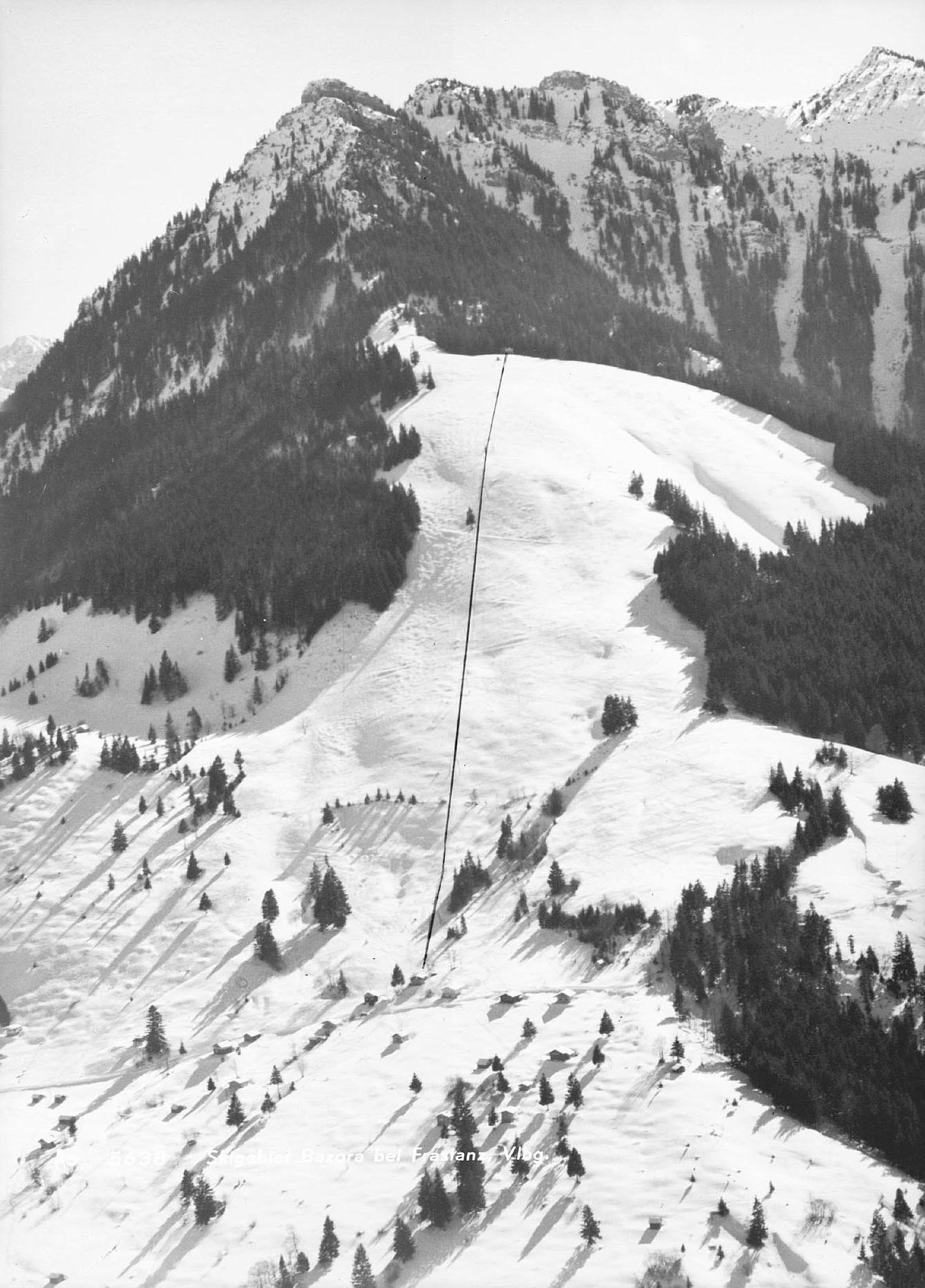 Ski resort Bazora in Frastanz near Feldkirch (Vorarlberg, Austria). Collection: Risch-Lau, 1972 (?). To see: Bazora and ski resort Bazora, Gurtisspitze, Zäwasheilspitz, Hohe Köpfe, Rhaetikon.